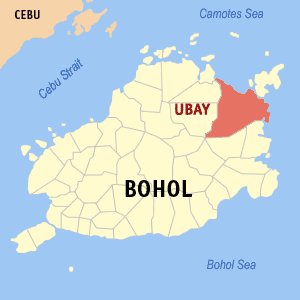 Map of Bohol showing the location of Ubay